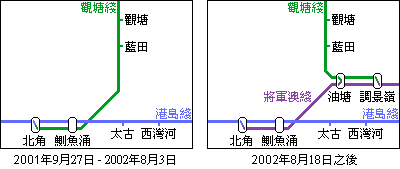 The alignment reformation of MTR, Hong Kong metro system. Chinese version. English version: image:Mtr eht en.png self-creation by user:Sameboat